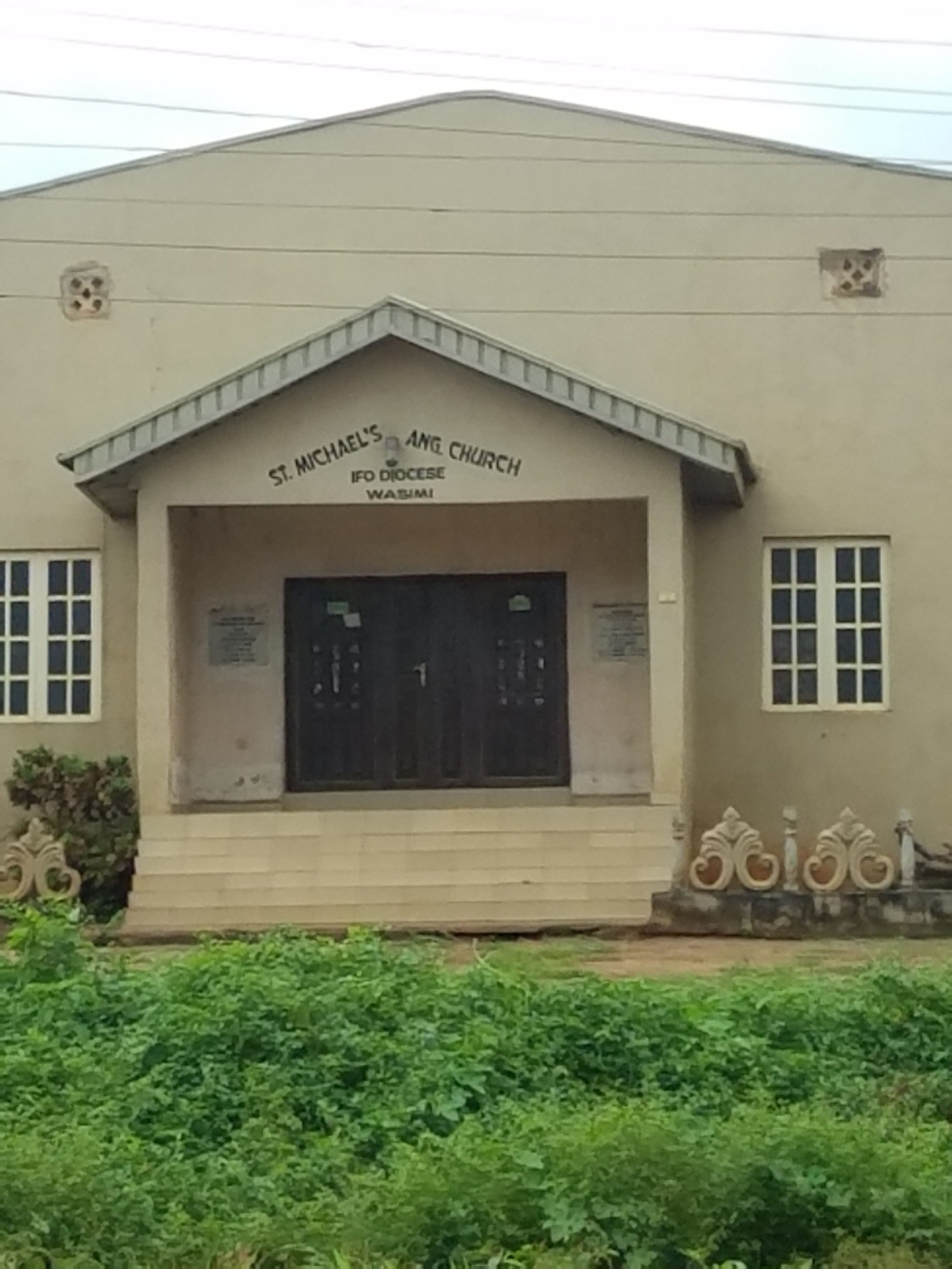 The first church in the village of Wasinmi in Ogun State along the Lagos-Abeokuta Road